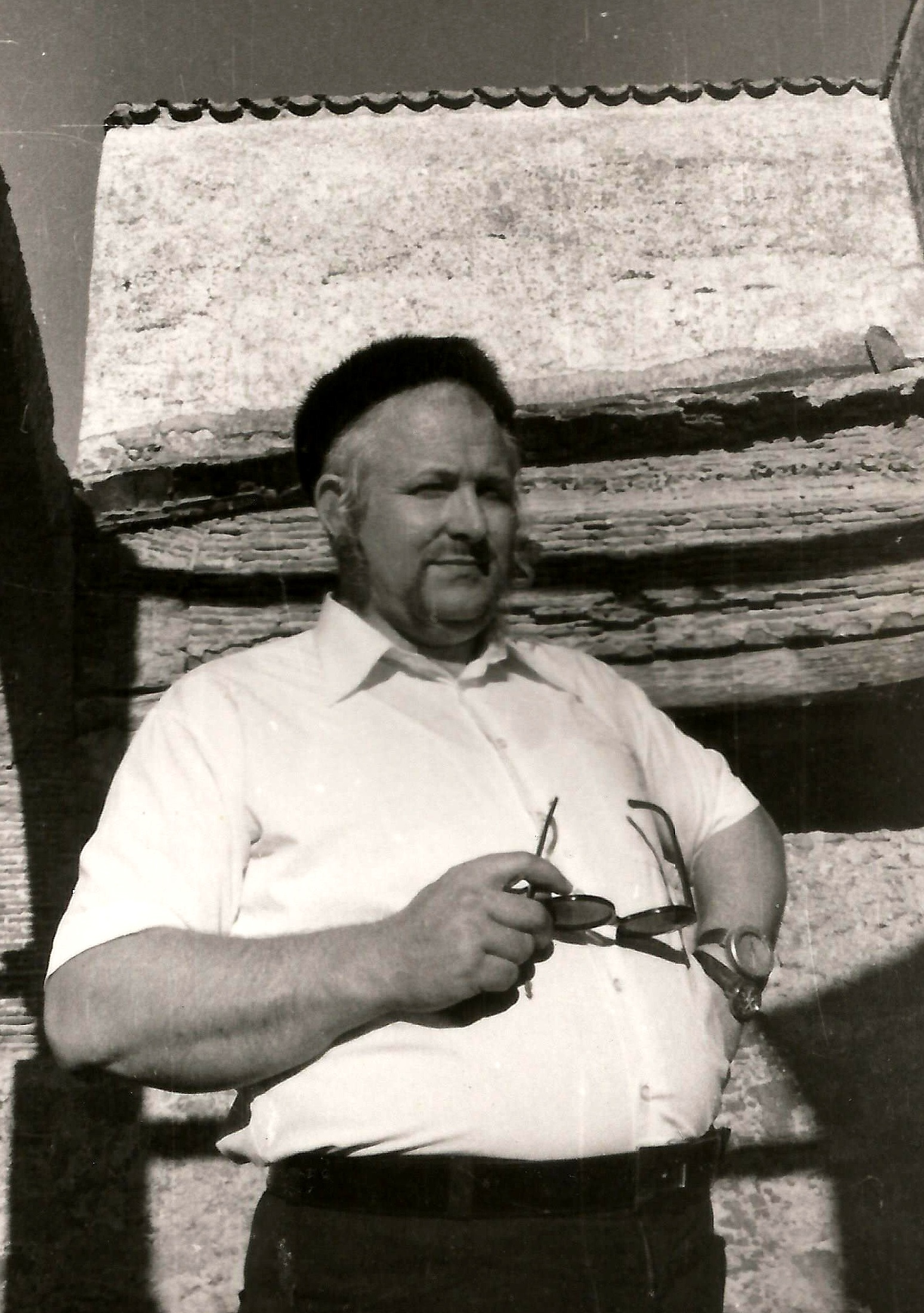 I made this foto of Wolf Vostell in Malpartida de Cáceres in 1980.